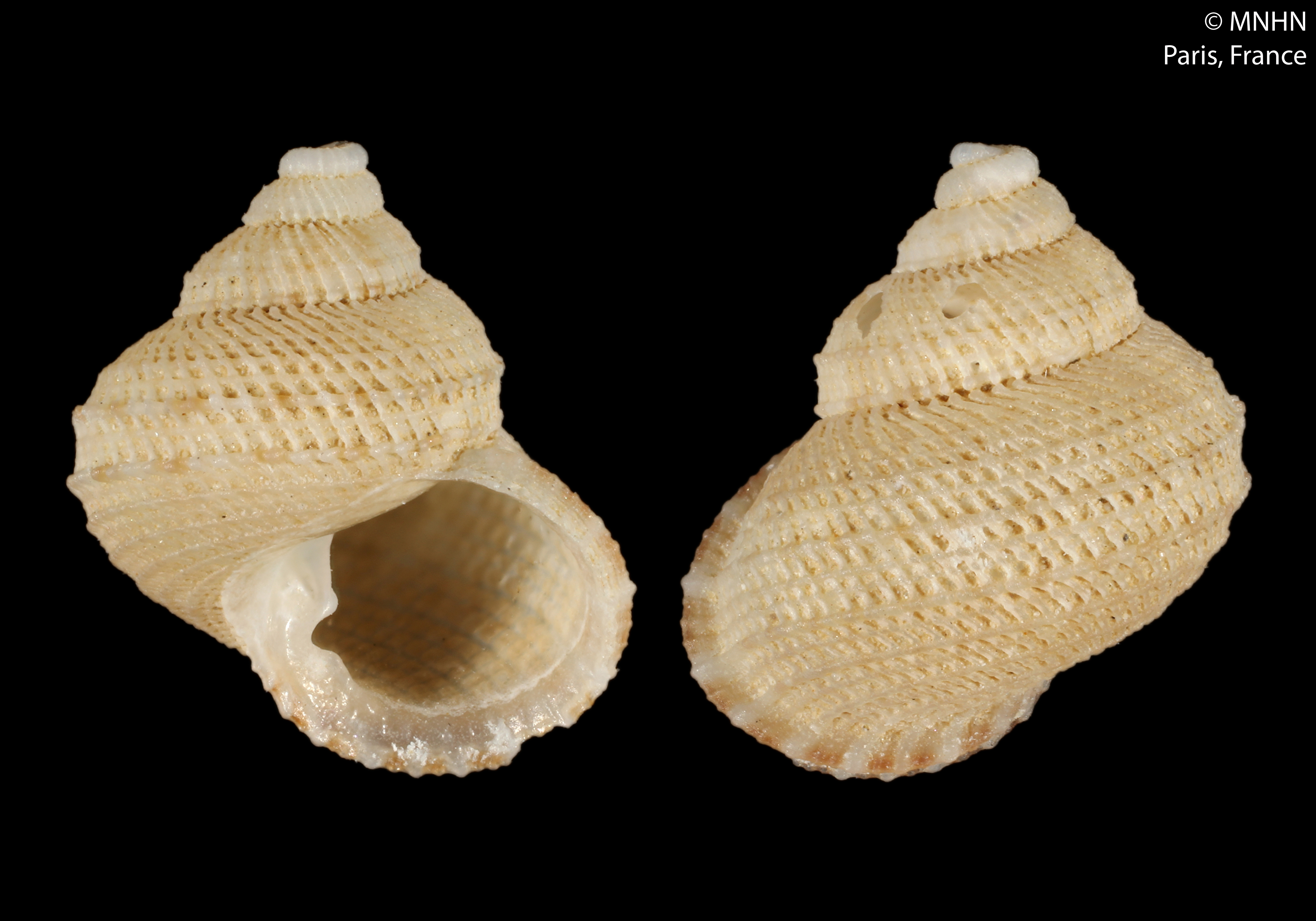 PRESERVED_SPECIMEN; Danilia boucheti Herbert, 2012; Type status: HOLOTYPE; Identified by: N/A; Individual count: 1; Event date: 2009-06-28T00:00:00Z